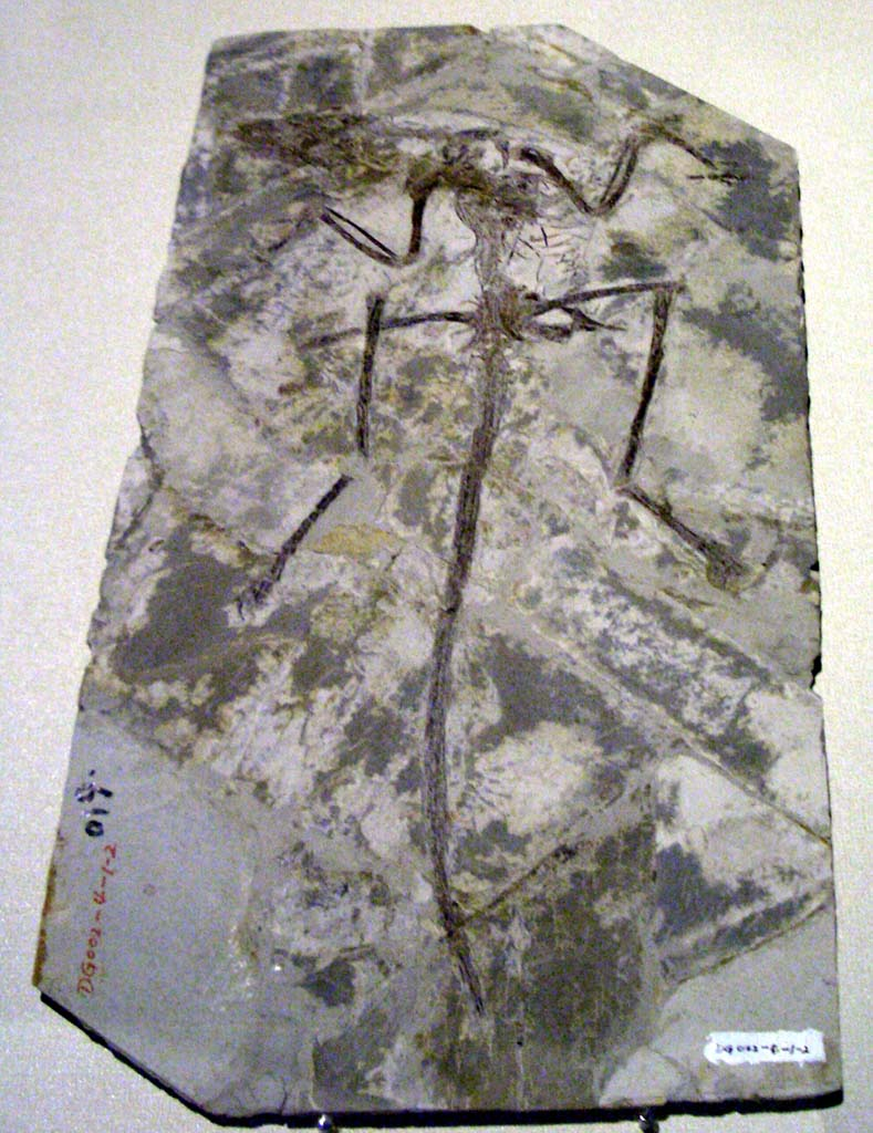 Microraptor zhaoianus fossil displayed in Hong Kong Science Museum